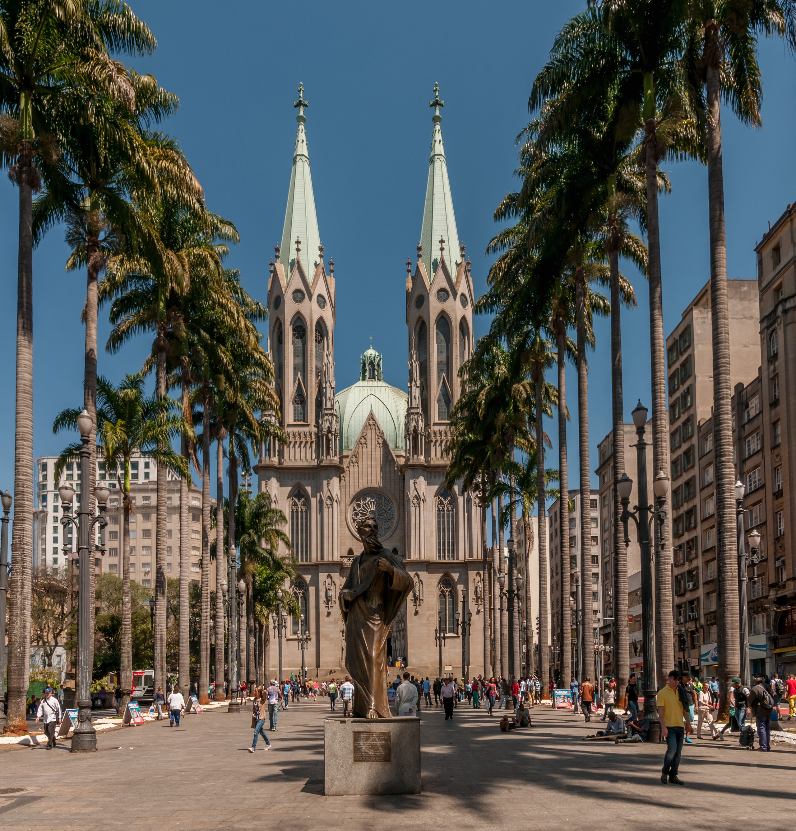 Catedral da Sé